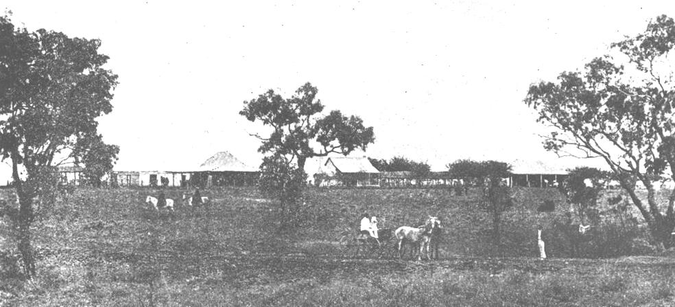 Tuaburra, an outstation of Bowen Downs Station, 1898 Outstation buildings at Tuaburra Station, Bowen Downs in the Aramac Shire. In the foreground are a number of horses and riders, and a horse and buggy. The photograph appeared in the Capricornian as a supplement on Aramac.